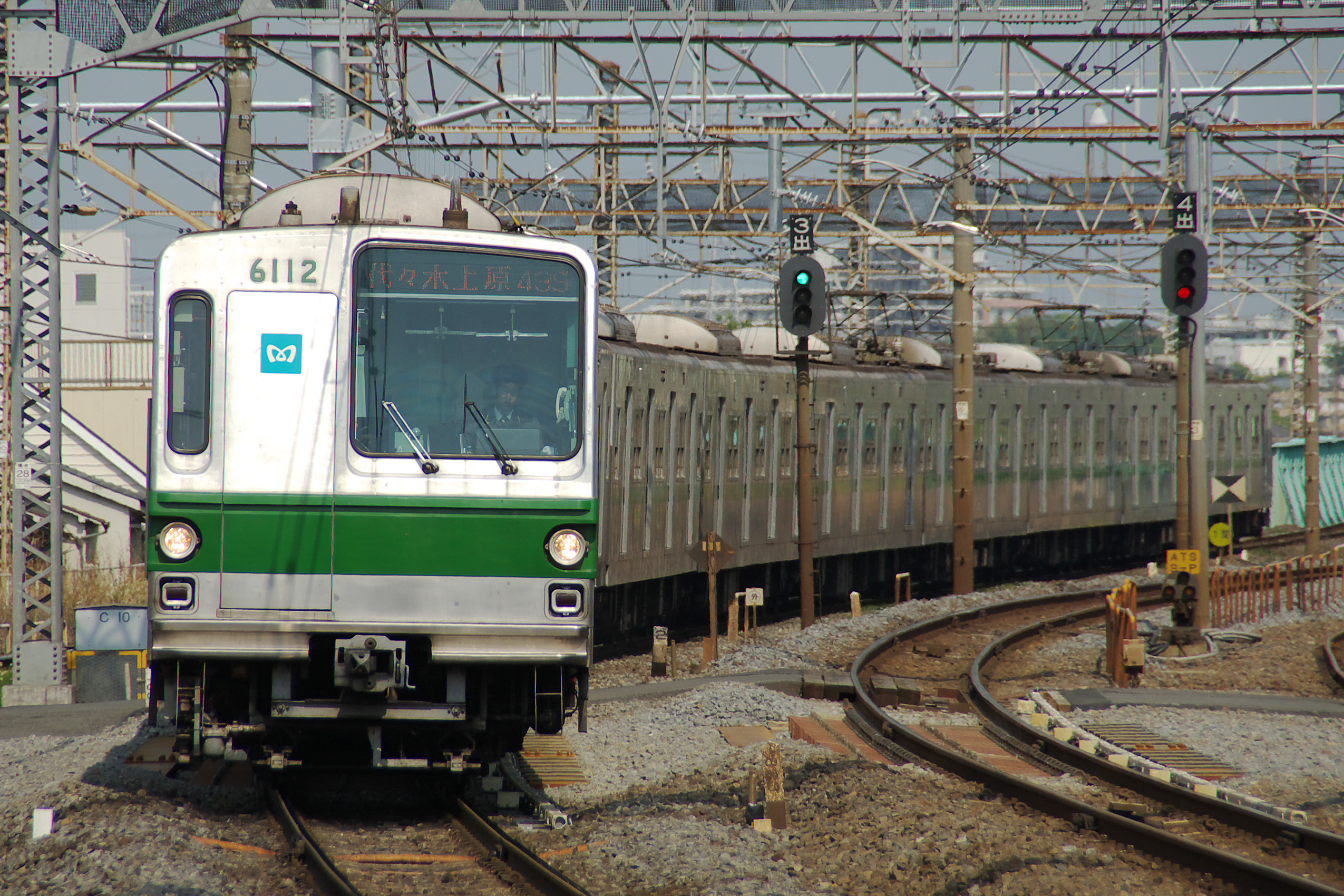 Tokyo Metro series 6000 EMU, Chiyoda-Line.